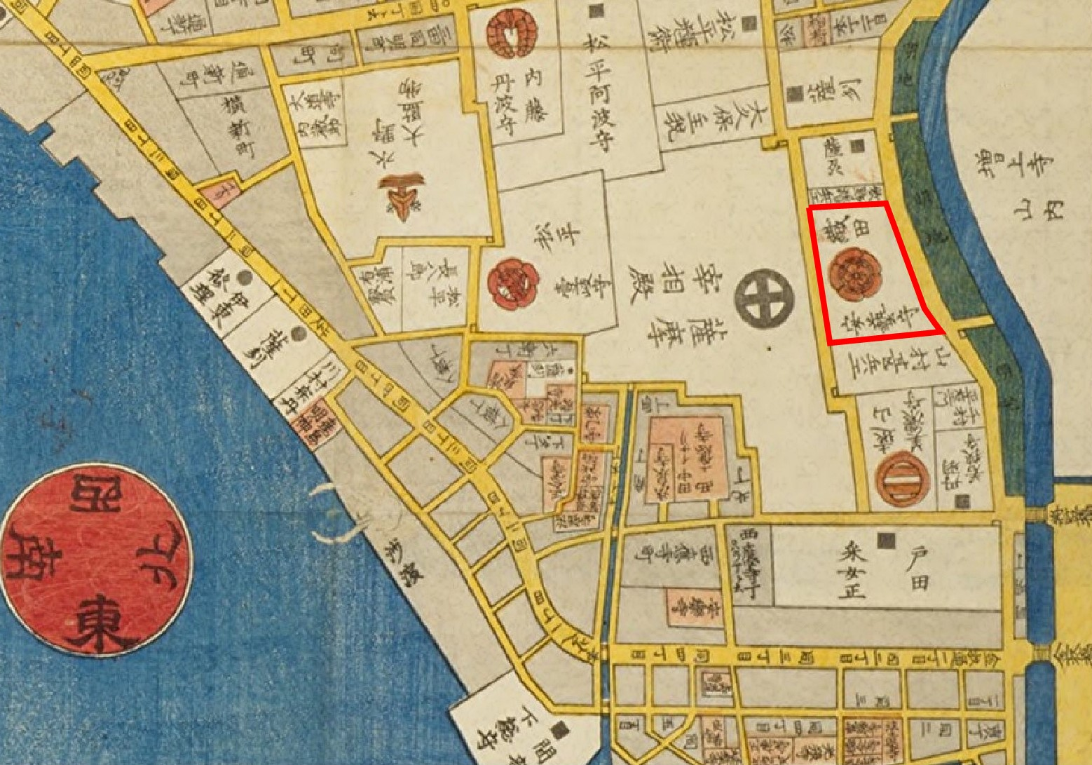 A residence of Oda clan at Edo